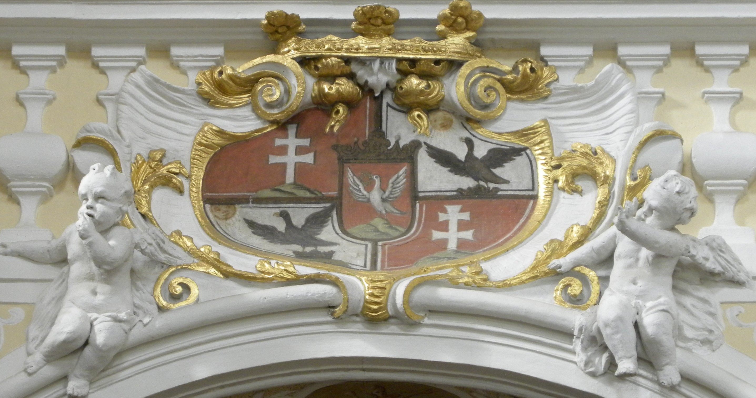 Coat of arms of György Széchényi. Arch of the sidechapel in the Basilica minor in Frauenkirchen, Austria.